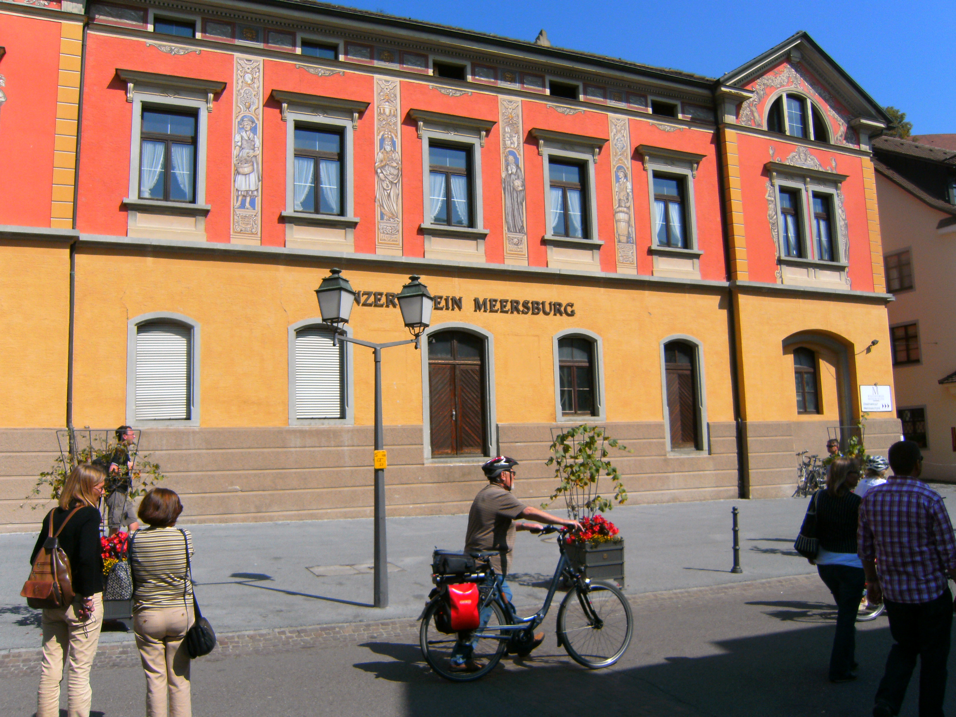 Unterstadtstraße (lower town street) in Meersburg: Building of the Winzerverein Meersburg (winegrowers cooperative Meersburg).